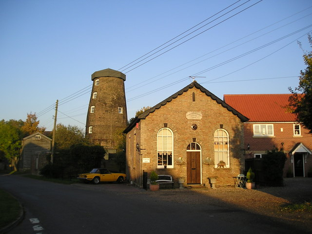 The converted tower mill at Buxhall, Suffolk